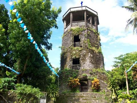 This is a picture of Bulusan Belfry